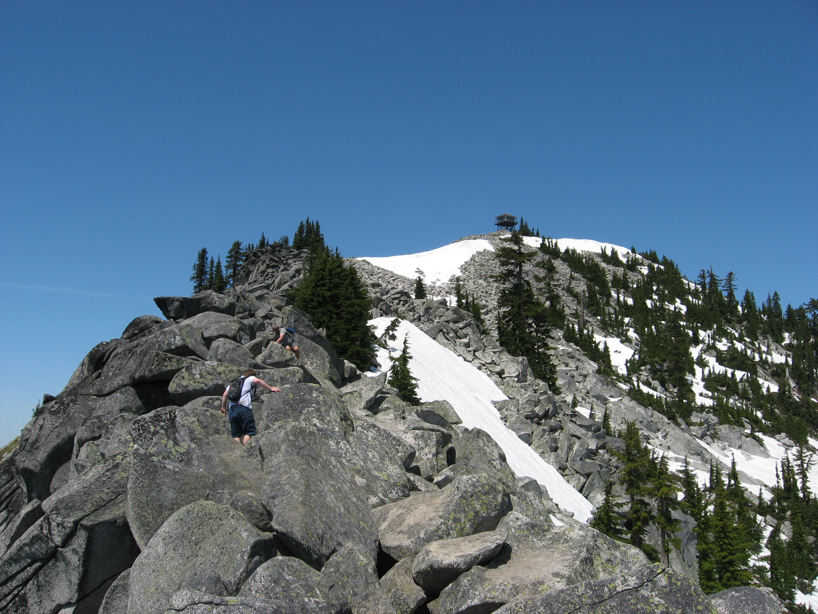 Near the summit of Granite Mountain, King County, Washington. The fire lookout at the summit is visible.